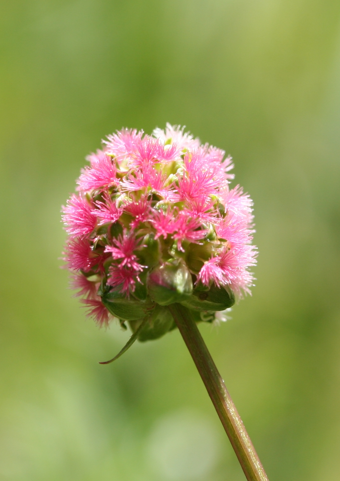 Sanguisorba minor Thijsses Hof, Bloemendaal, the Netherlands 14 May 2006